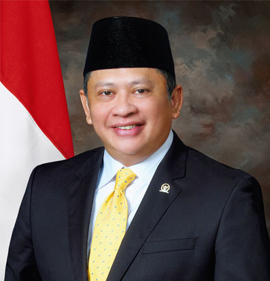 Bambang Soesatyo, Speaker of People's Representative Council